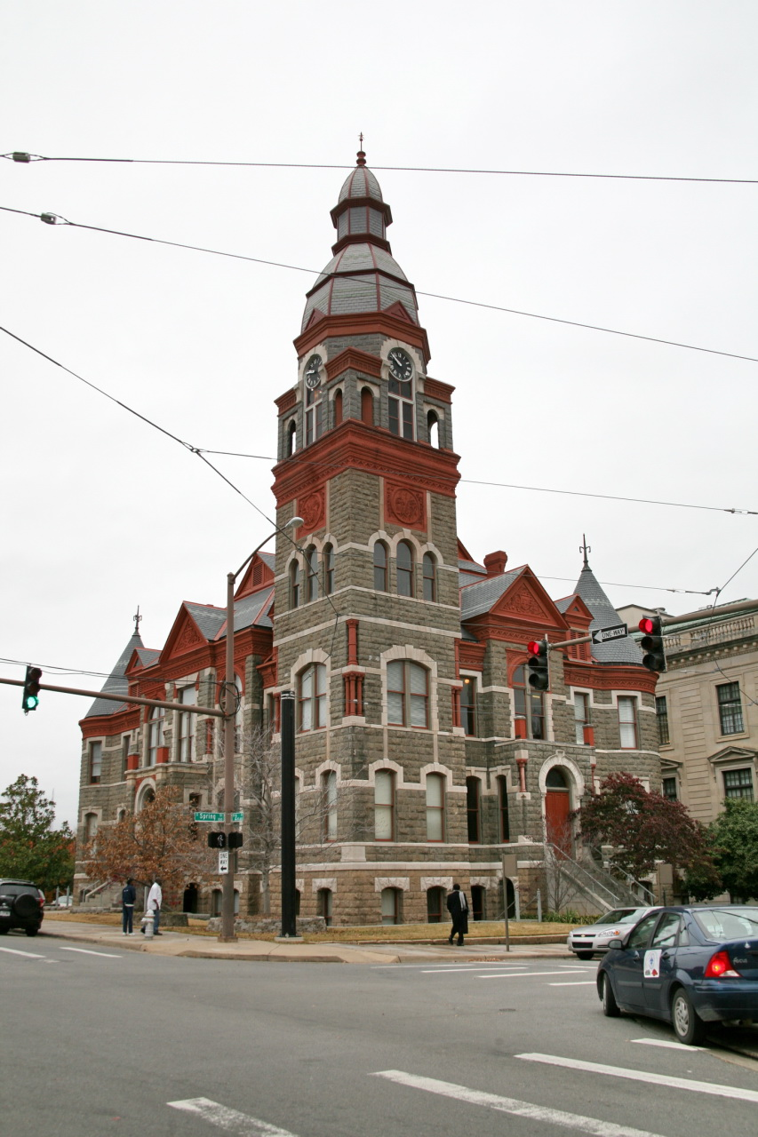 Original Pulaski County Courthouse located at 2nd & Spring Streets in Little Rock, Arkansas, United States; built in 1887, it is listed on the National Register of Historic Places. Rear of annex built in 1913-14 at 405 W. Markham (included in National Register listing), now the main entrance, is seen at far right.